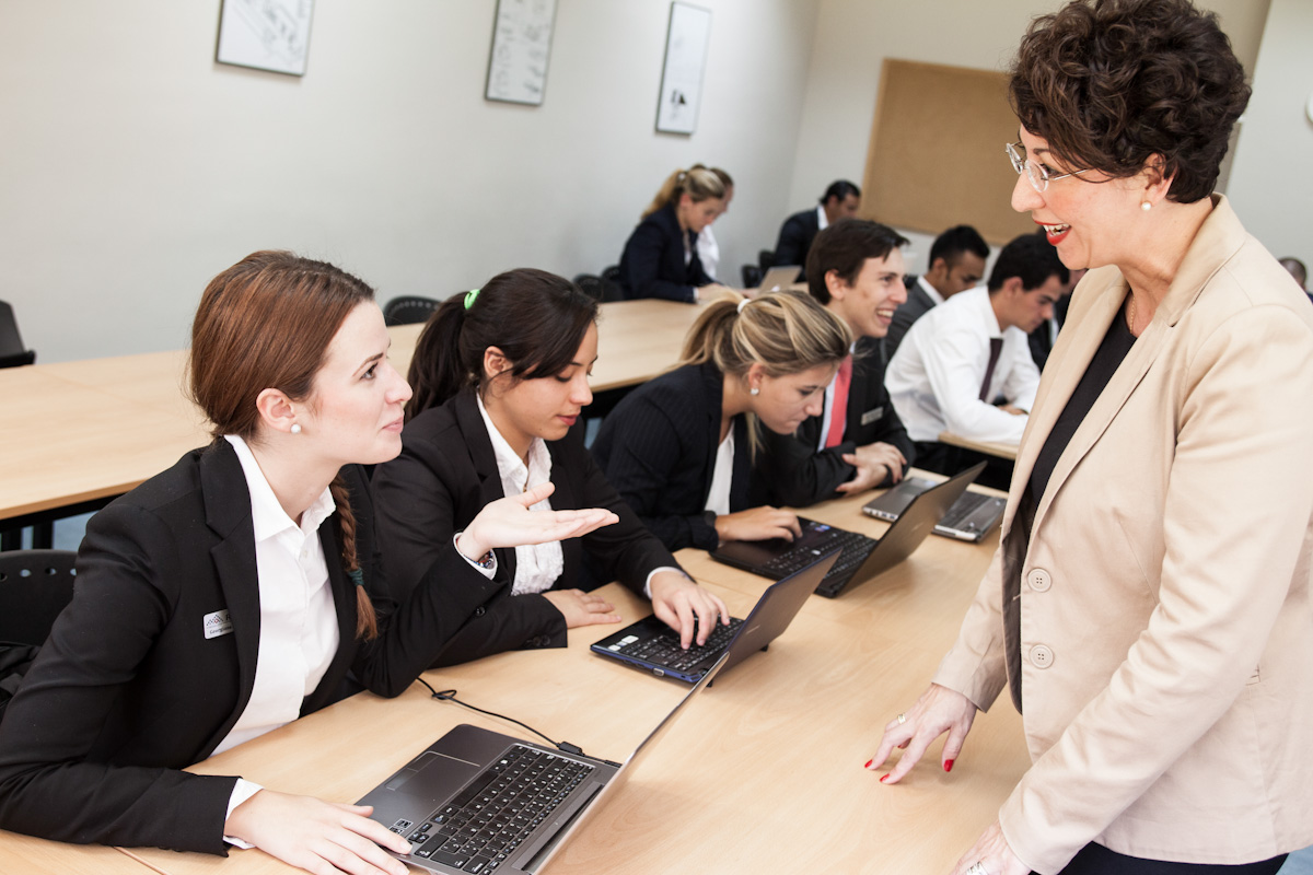 Classroom Interaction